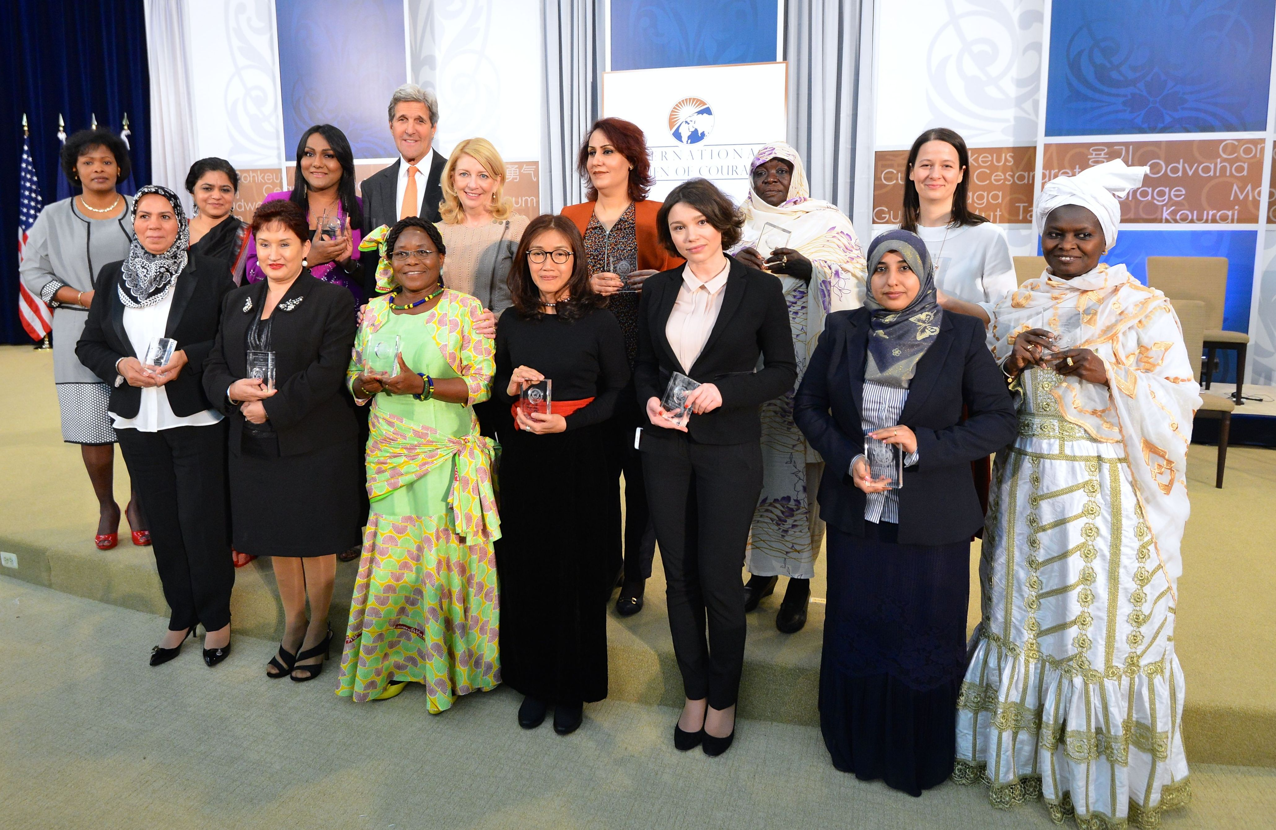 International Women of Courage Awards 2016